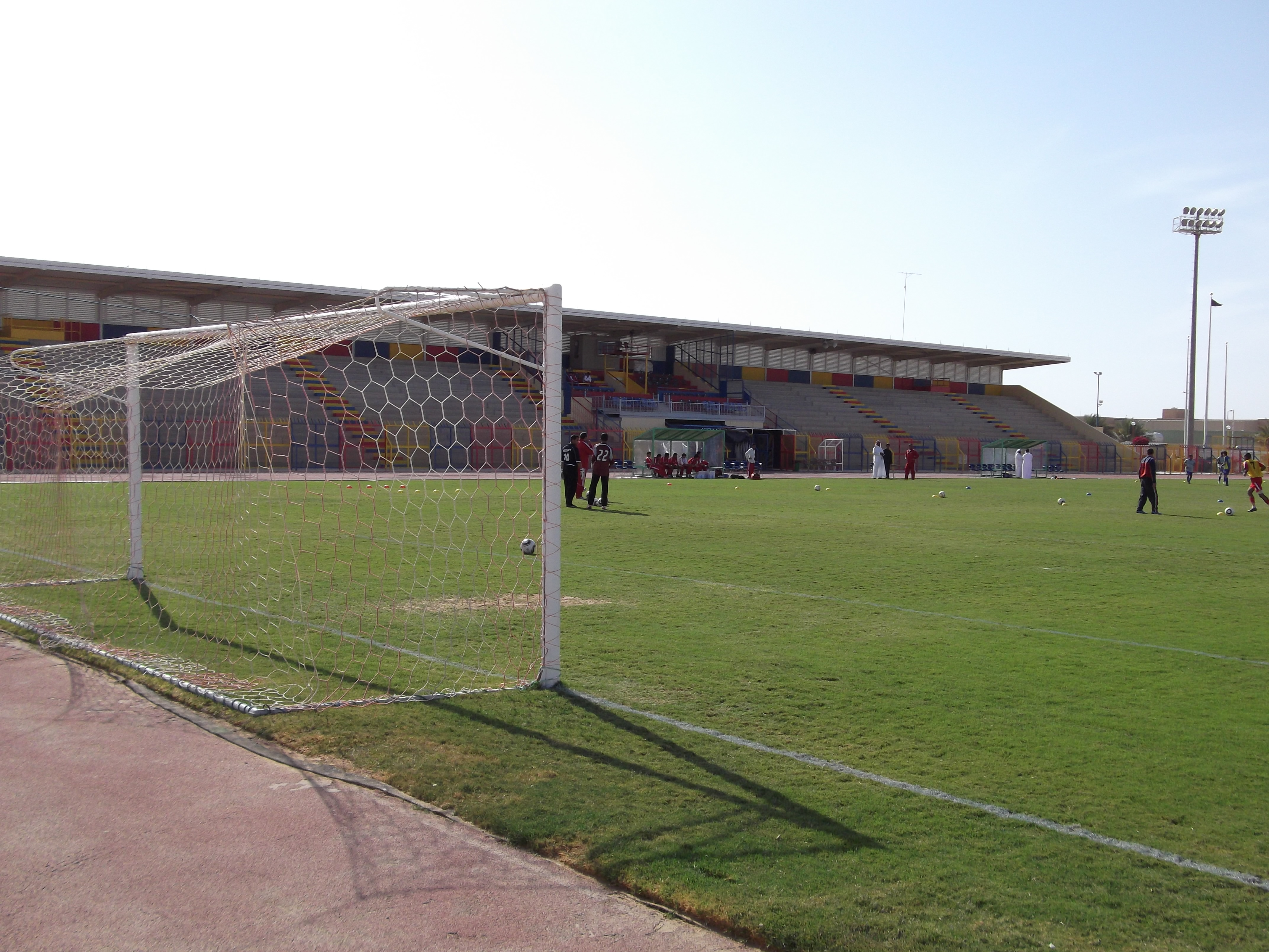 Al-Hazm Club Stadium